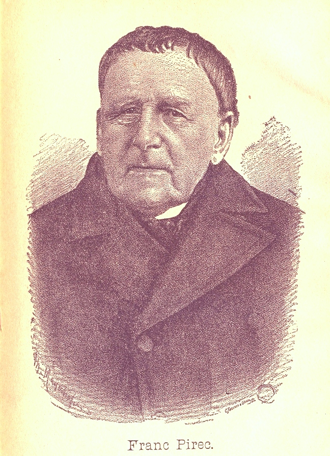 Francis Xavier Pierz (1785-1880), a Roman Catholic priest and missionary to the Ottawa and Ojibwa Indians